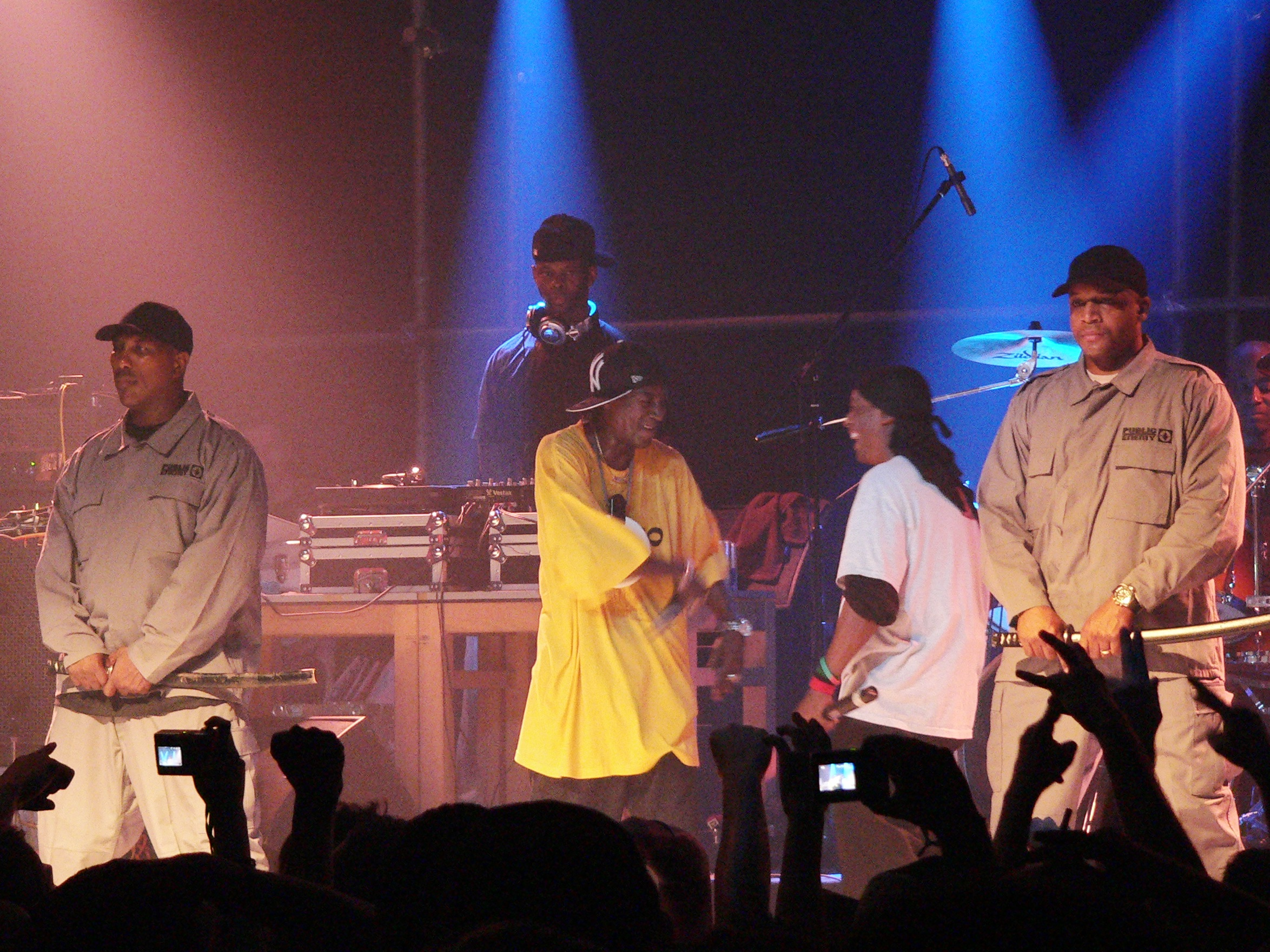 Public Enemy in concert, Zagreb 2006 (Flavor Flav, Professor Griff, two members of S1W)